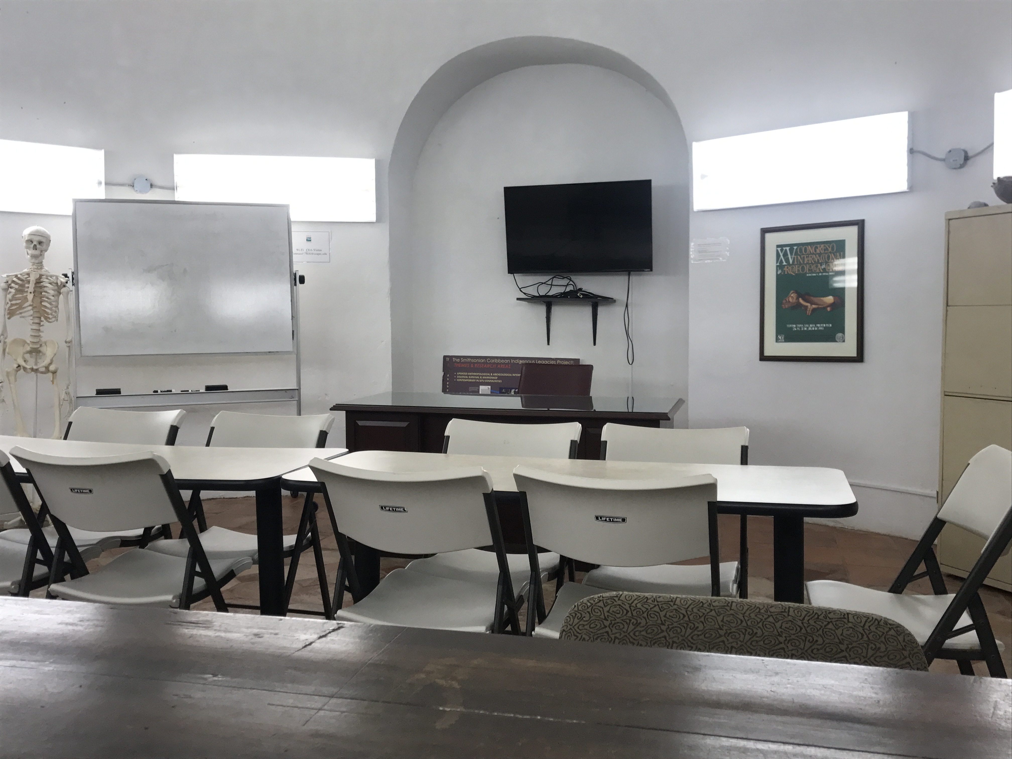 The archeological laboratory of the Center for Advanced Studies on Puerto Rico and the Caribbean.